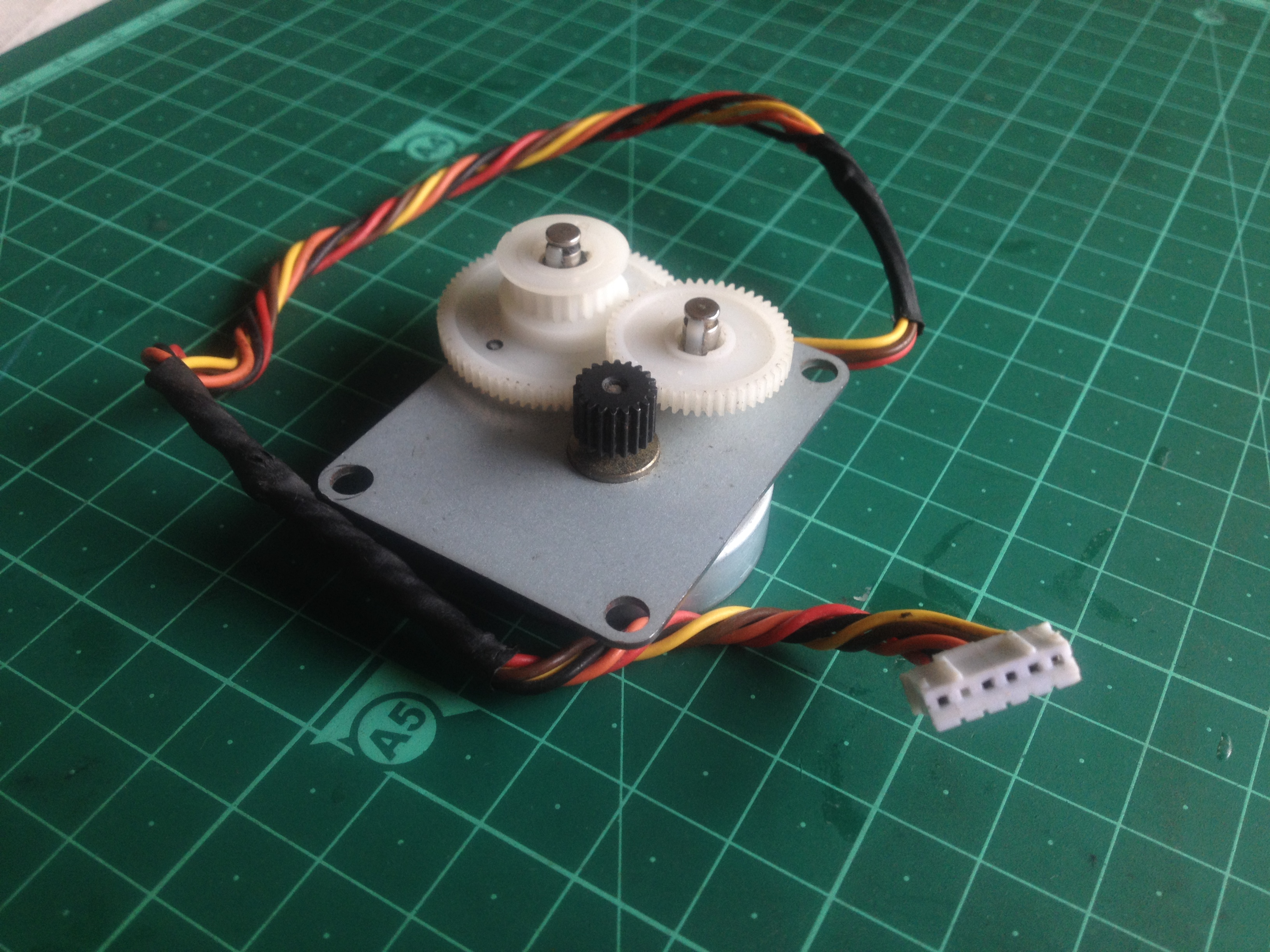 This stepper motor is from an HP Scanjet 2400 flatbed scanner. It operates on 12-volts and is driven by a ULN2003 Darlington transistor array chip. Small stepper motors like this usually have very low torque, to increase the torque and the resolution, a reduction gear mechanism is often added. The gears cause some backlash though.